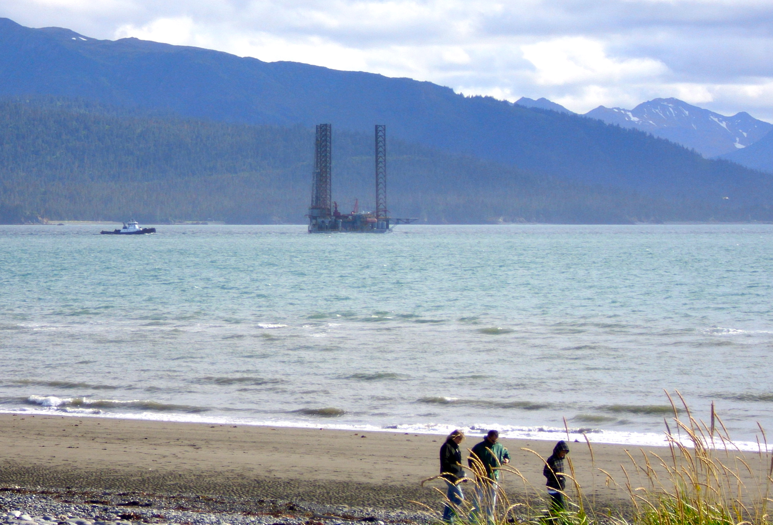 Escopeta Oil and Gas Spartan 151 jackup oil rig being towed, Kachemak Bay, Alaska